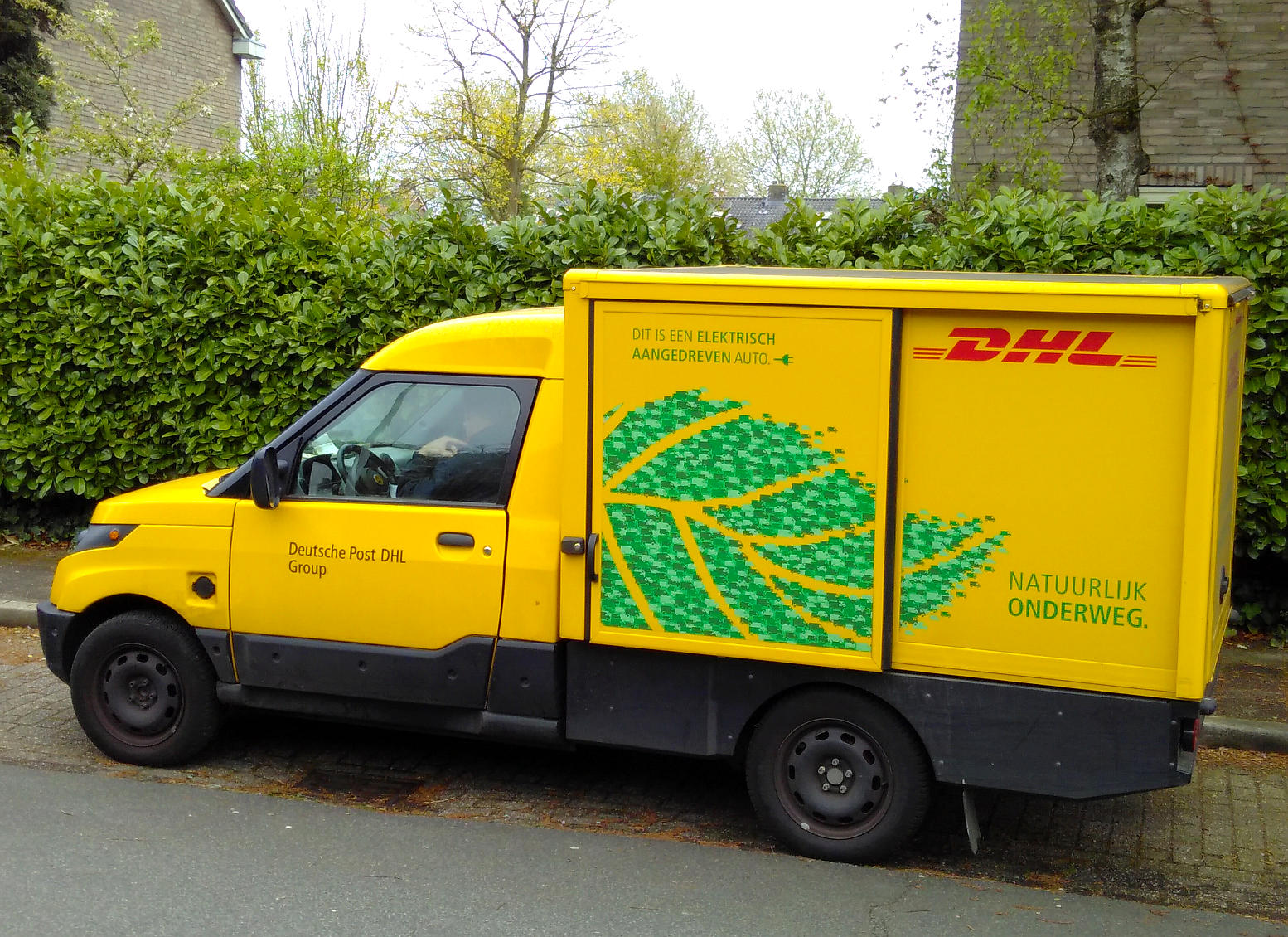 DHL Parcel delivers parcels in residential area with electric delivery van. (Netherlands)